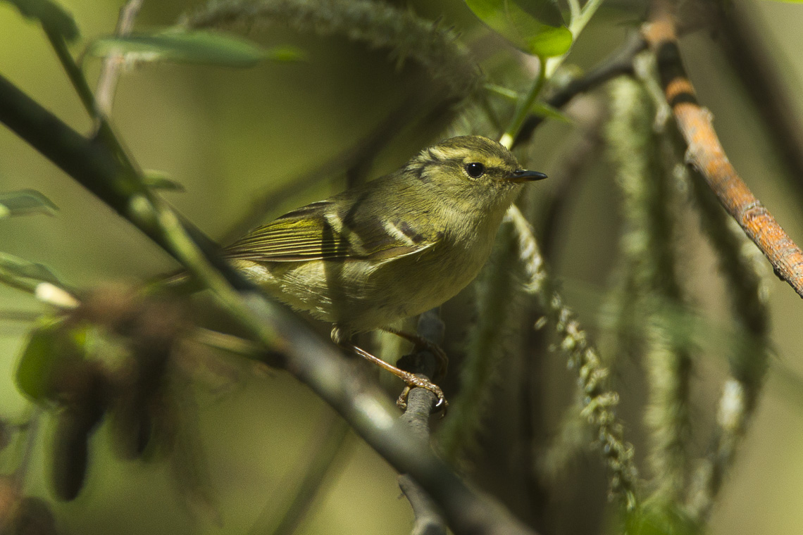 Lemon-rumped Warbler - Bhutan_S4E9495